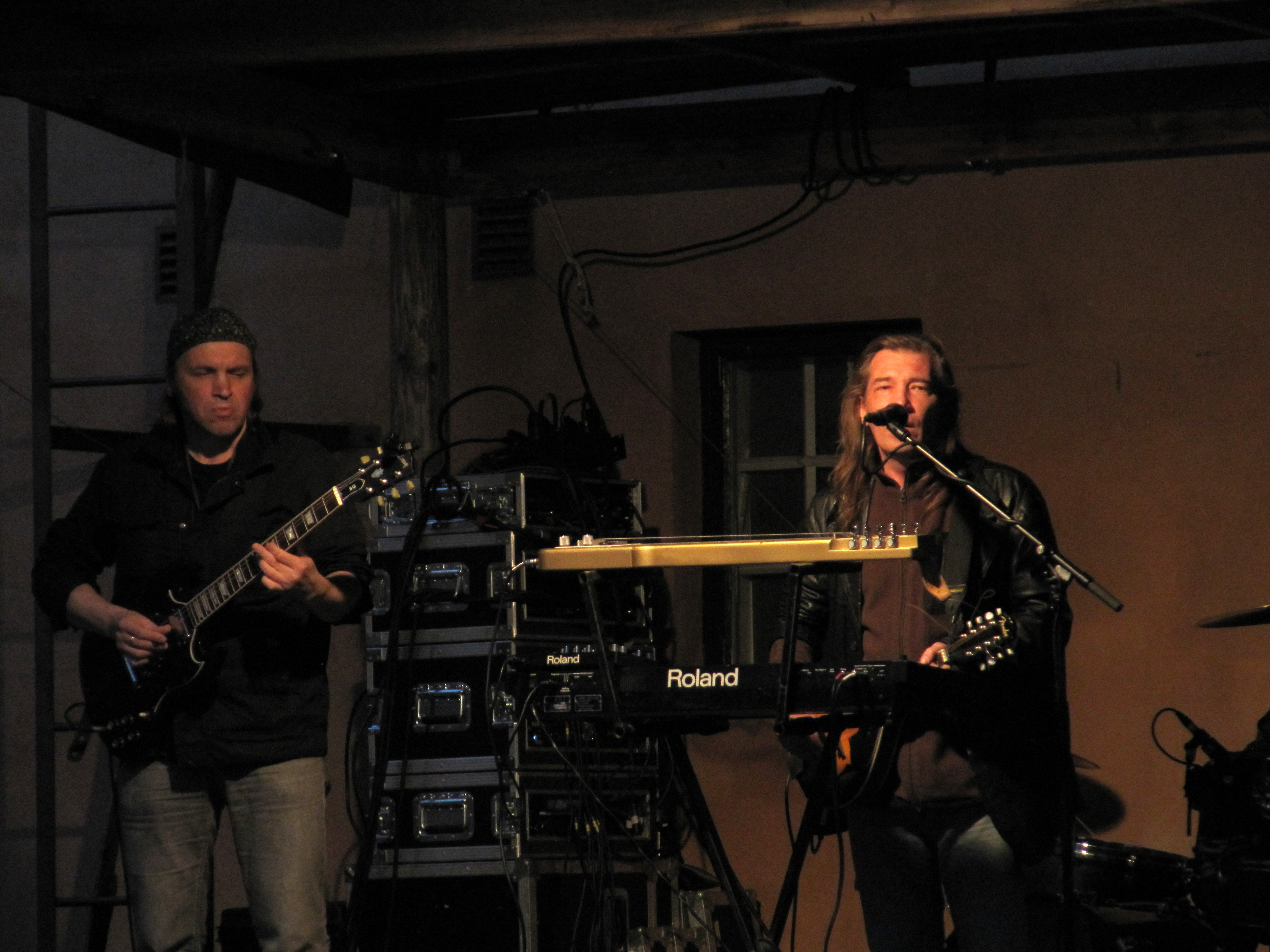 Karelian folk rock band Santtu Karhu & Talvisovat performs at Pikku Pietarin klubi club at Kirjakahvila in Turku, Finland May 28 2011. On the left Feodor Astashov (guitar), on the right Santtu Karhu (vocals).